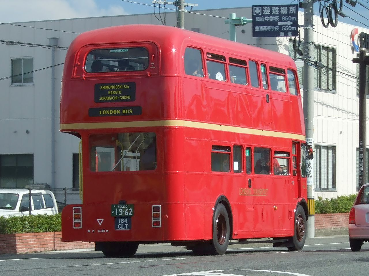 Routemaster RM1164 operated in Shimonoseki City, Yamaguchi, Japan. Company:Sanden Kotsu Use:transit bus Car license(in Japan):下関230 あ 1962 Car license(in United Kingdom):164 CLT Code(in United Kingdom):RM1164 Chassis manufacturer:Associated Equipment Company Coachbuilder:? Location:Jokamachi Chofu bus stop